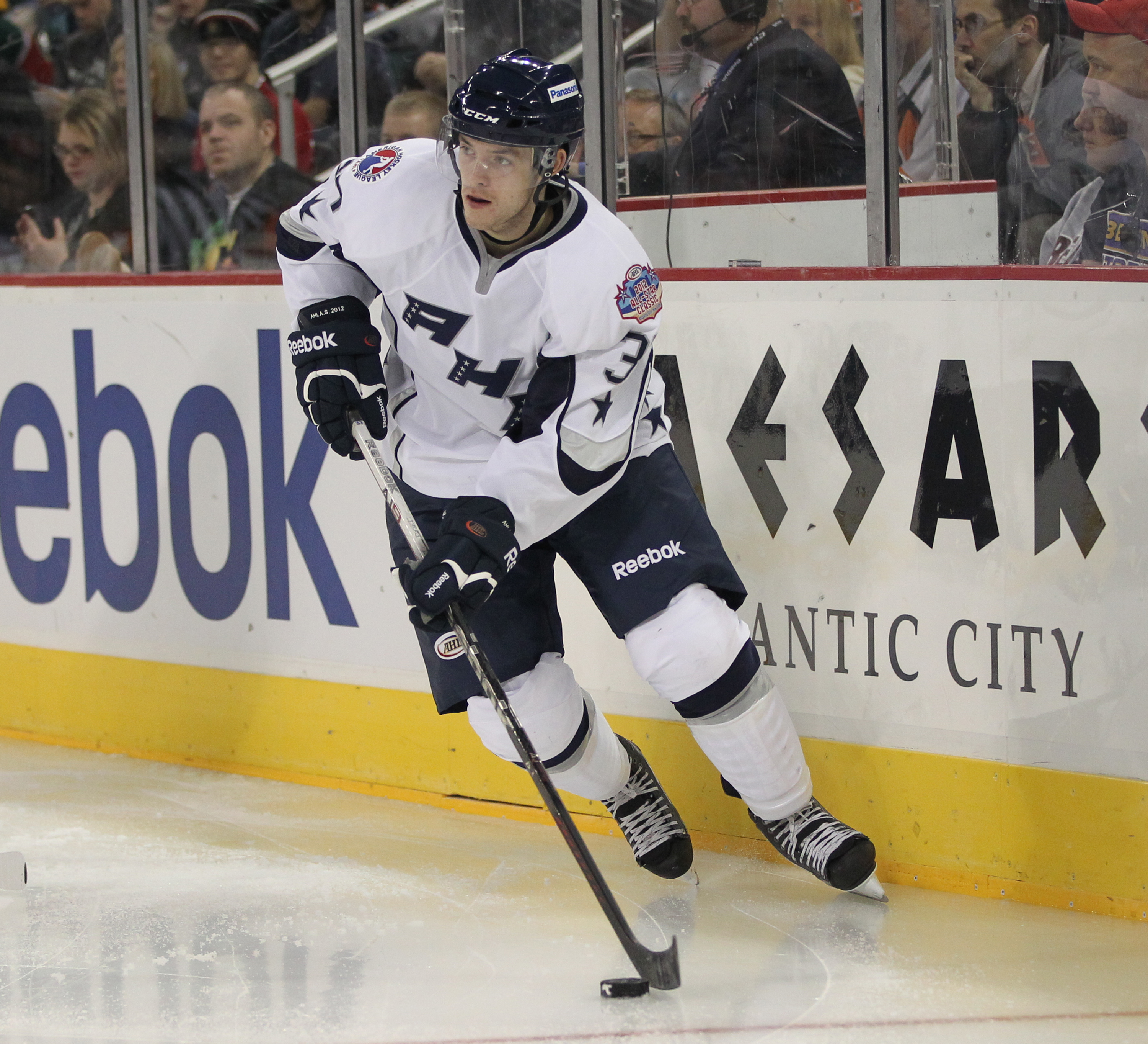 PhotoGraphics Photography/AHL